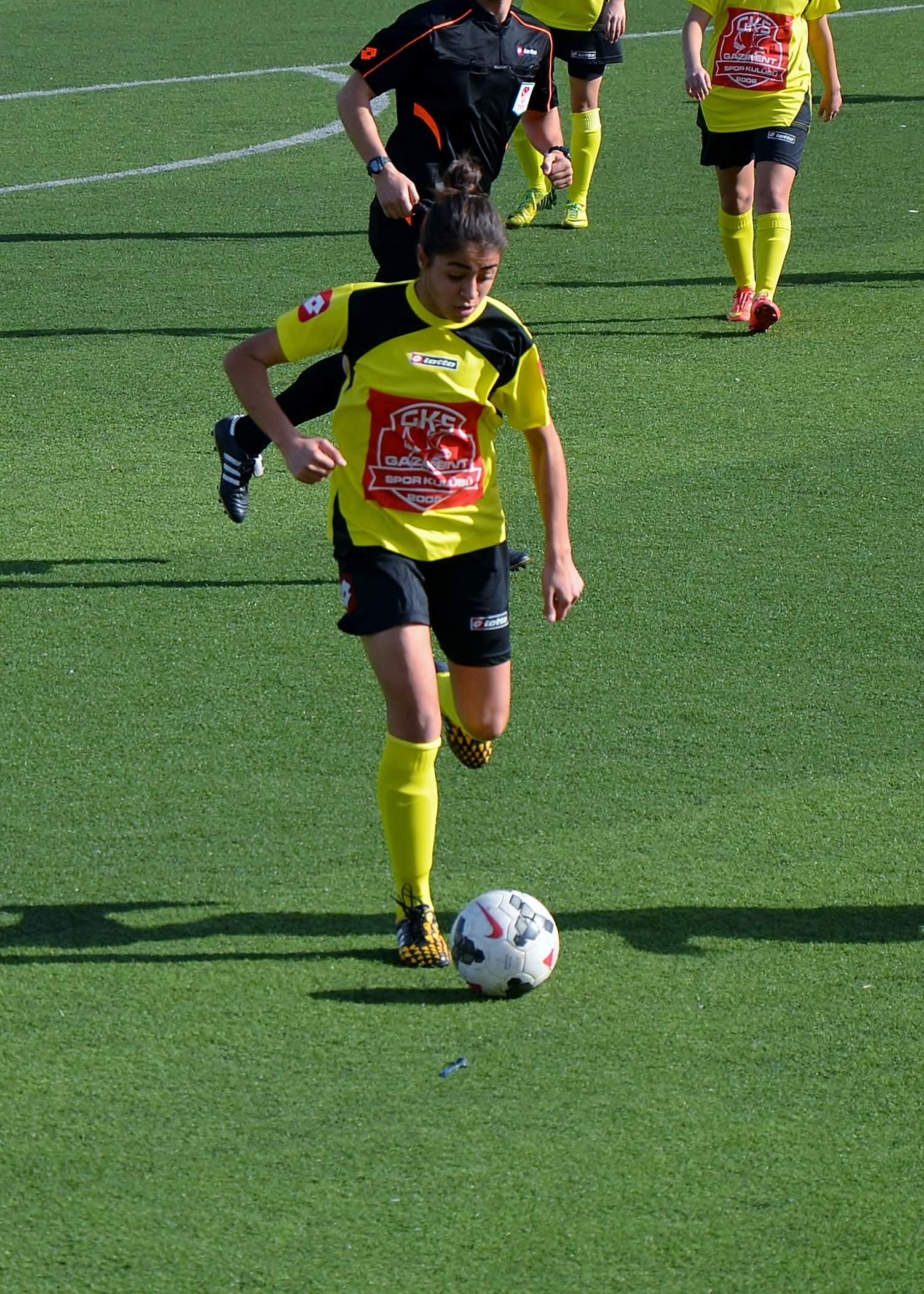 Esma Kevser Aksan playing for Gazikentspor in the 2014-15 away match against Ataşehir Belediyespor..